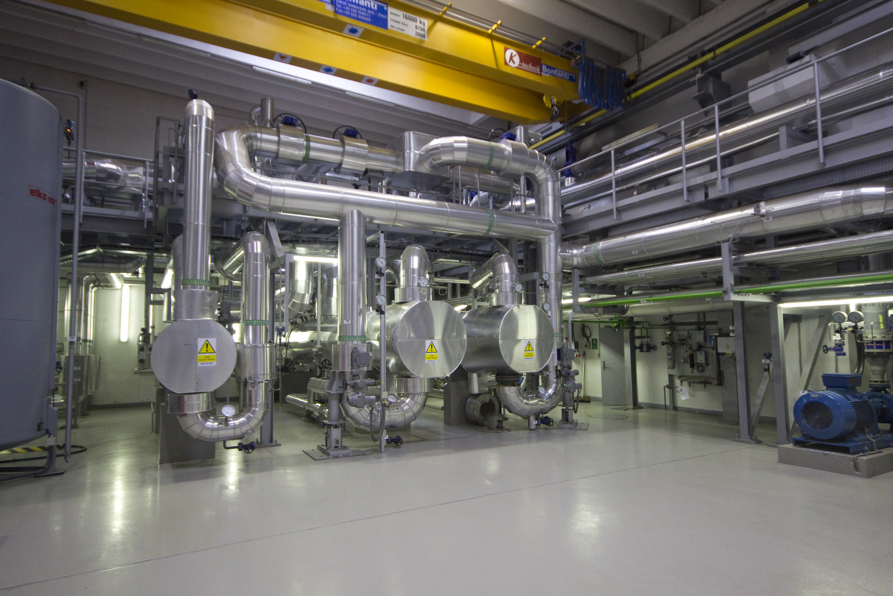 Hot-water heat exchangers for heating plants, Equipment for energy recovery of waste - Malešice incinerator, Prague Tato série fotografií vznikla za laskavého svolení společnosti Pražské služby